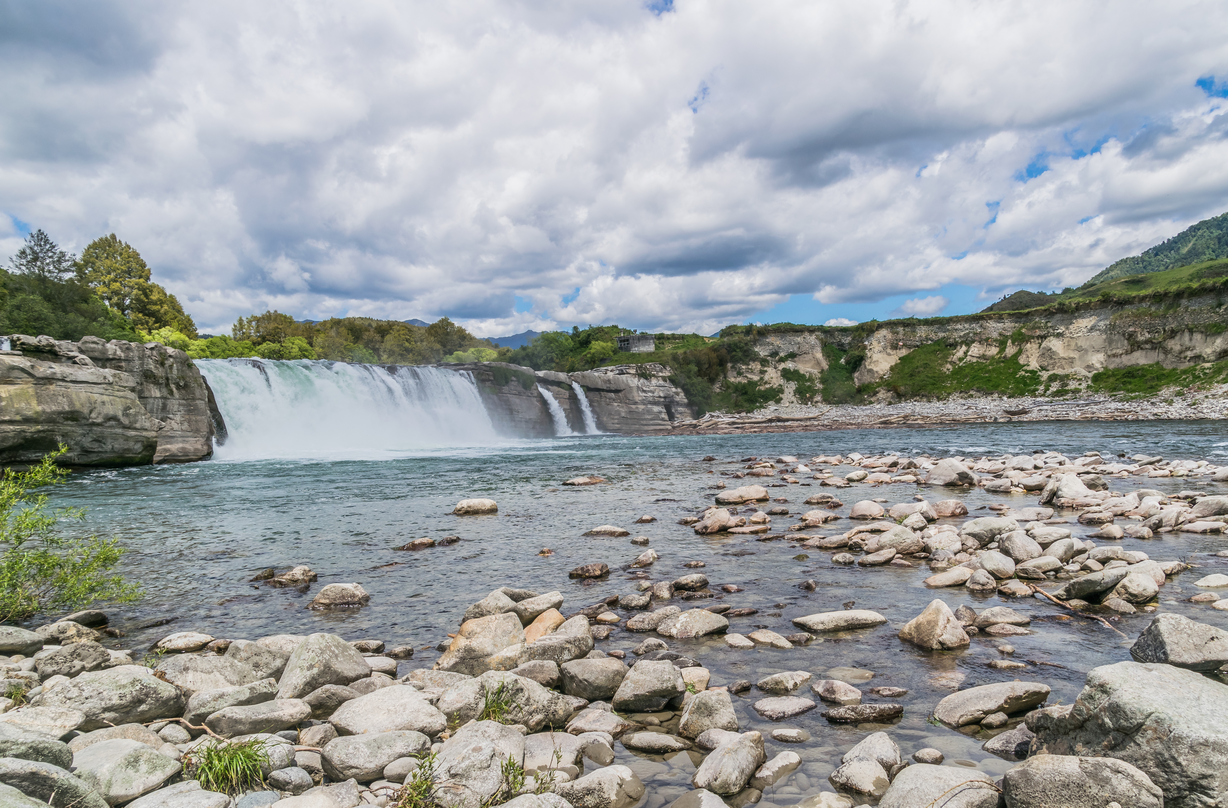 Maruia Falls on Maruia River in Tasman Region, South Island, New Zealand